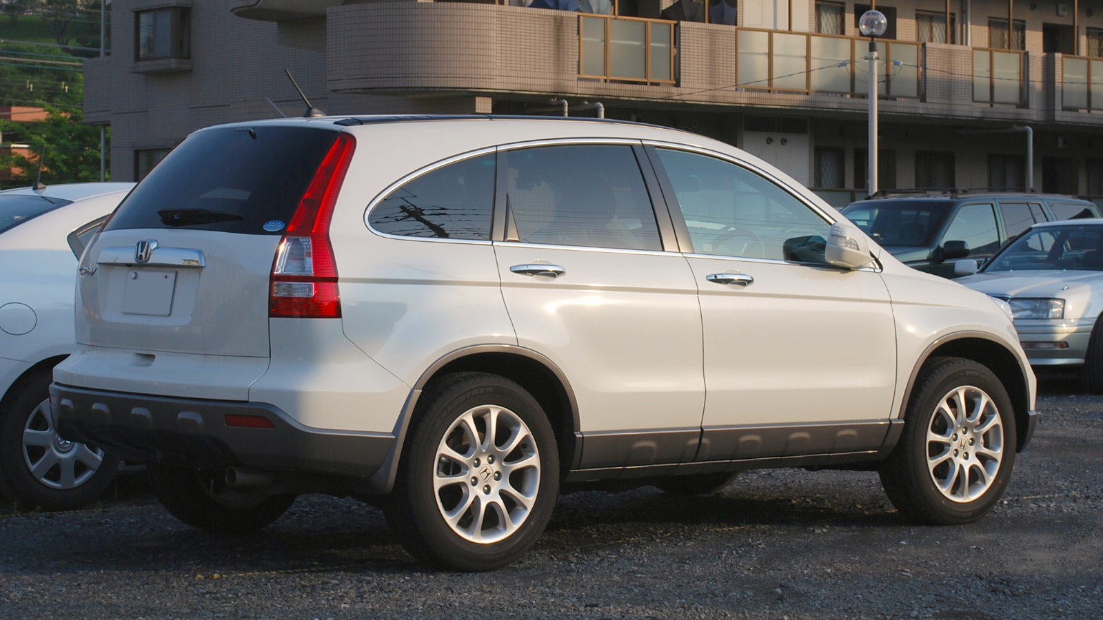 3rd generation Honda CR-V (2006/10 - )